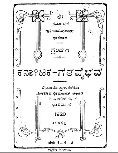 cover page of the book